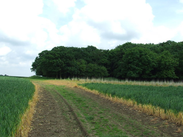 Kings wood Kings wood near to near to Poslingford Suffolk.